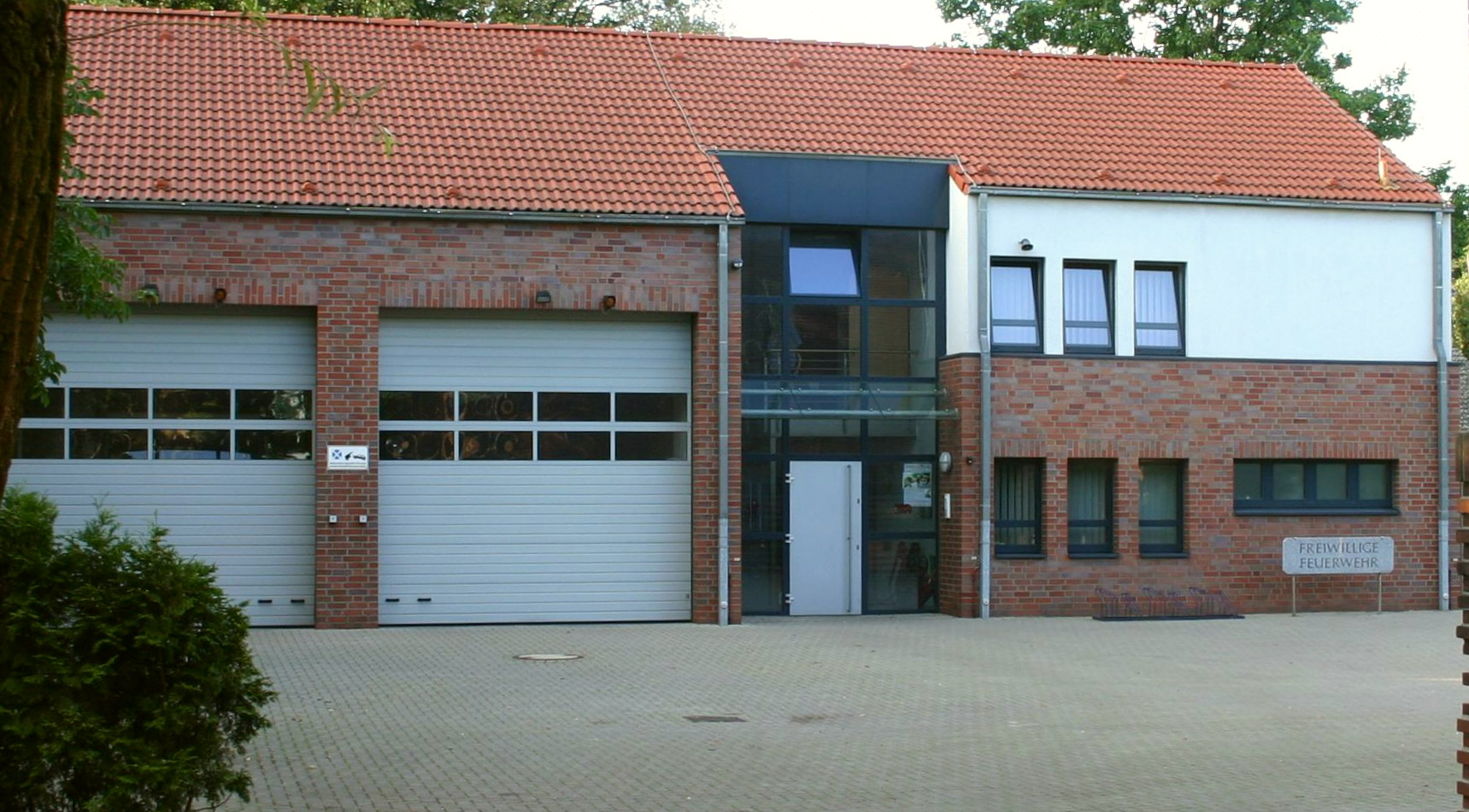 The Fire Station of the voluntary fire brigade Duisburg-Mündelheim (it was built in 1999)